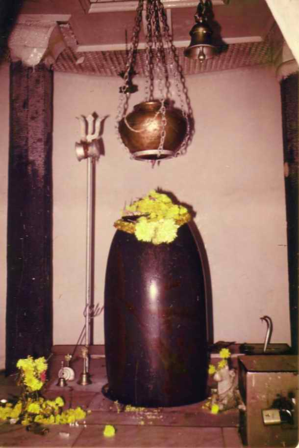 Shiva lingam, Srinigar